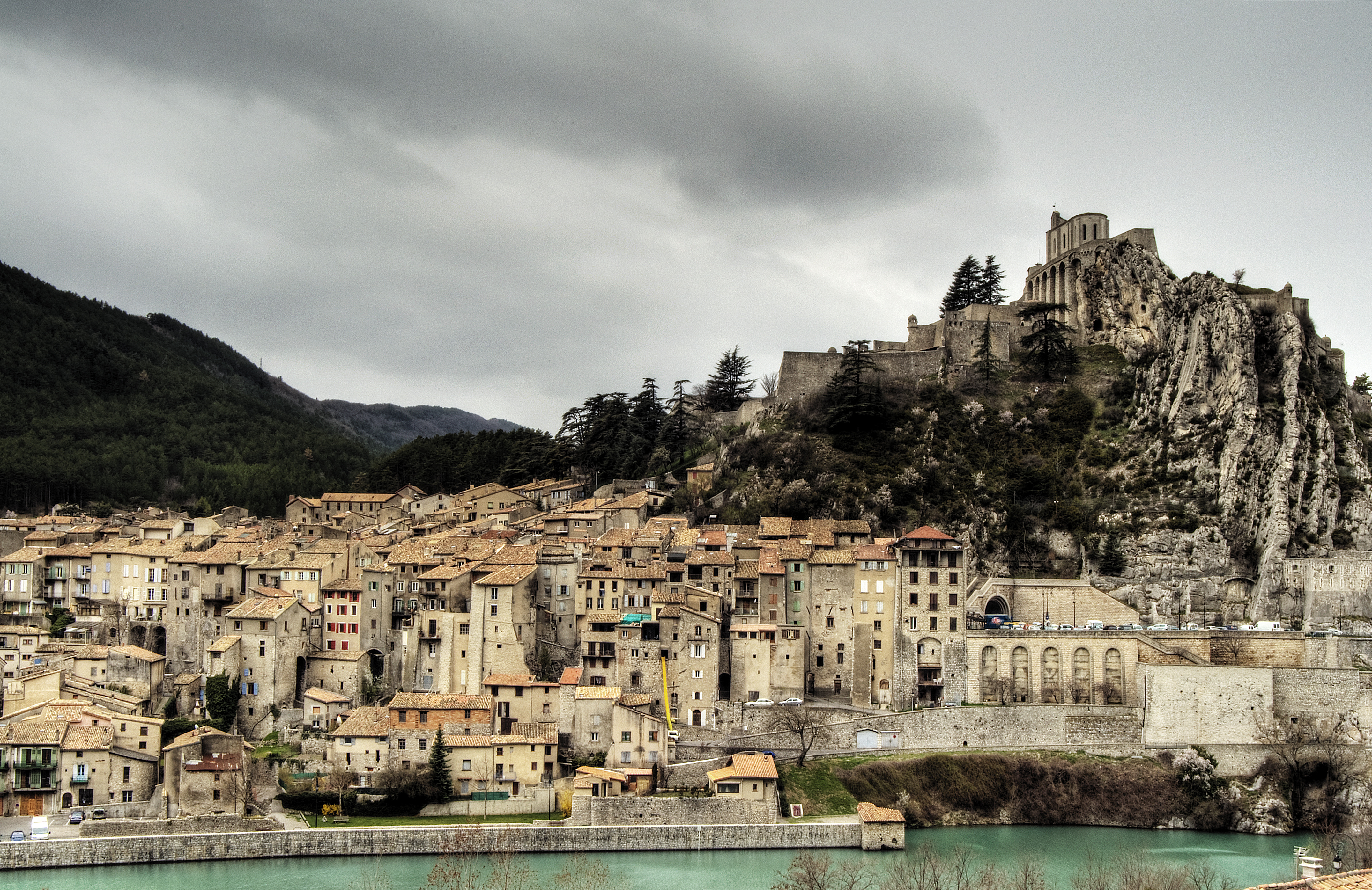 Sisteron a commune in southeastern France, in the Alpes-de-Haute-Provence département in the Provence-Alpes-Côte d'Azur region.